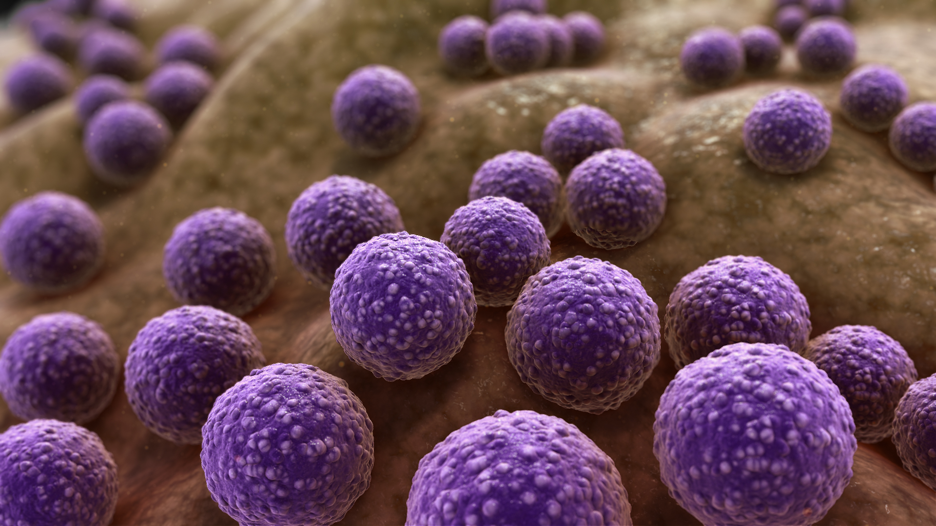 Staphylococcus aureus is a Gram-positive, round-shaped bacterium that is most commonly isolated from all forms of osteomyelitis.